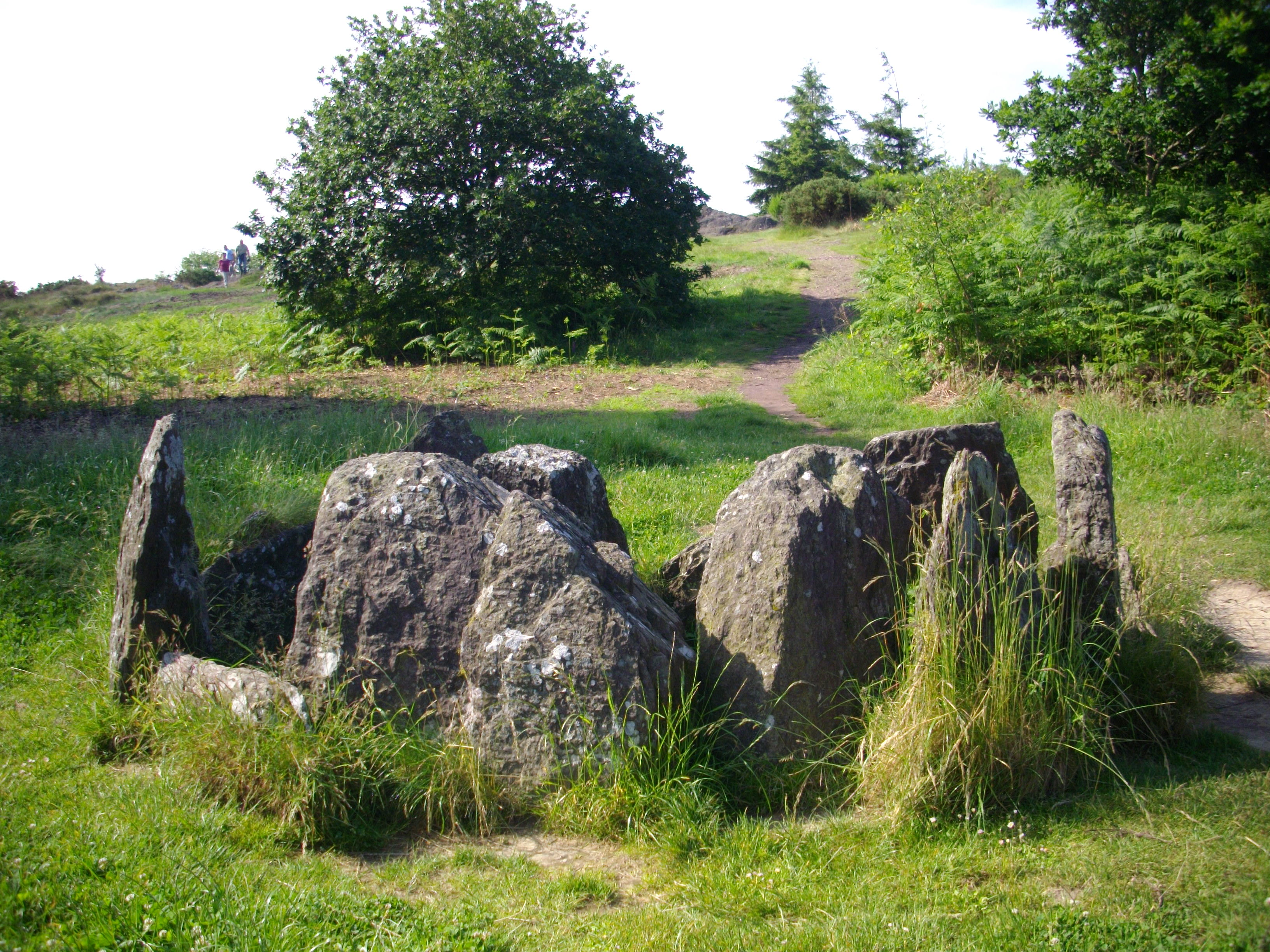 "Hotié de Viviane", a megalithic site in Paimpont forest (Ille-et-Vilaine, France)